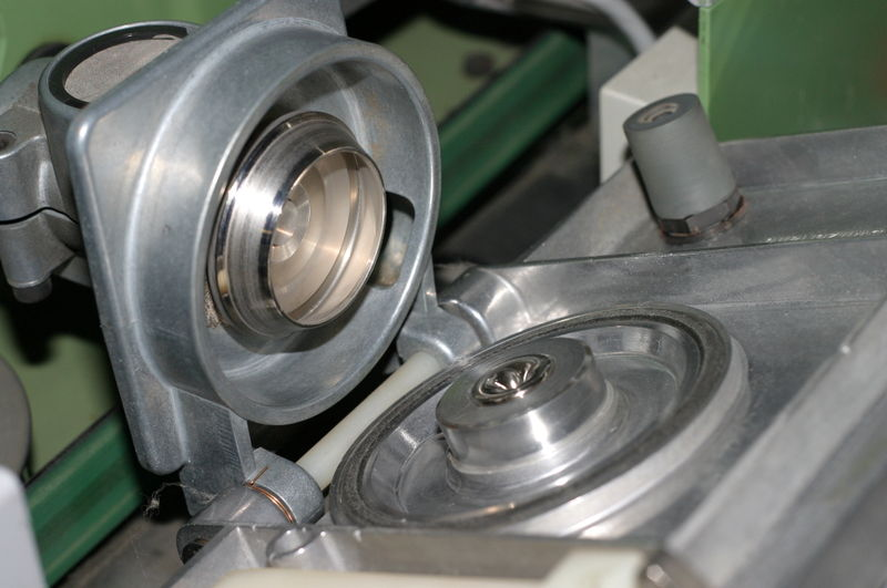 open end spinning point Česky: Pradni rotor